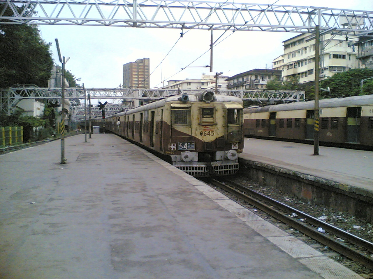 Train leaving Churchgate Station on the Mumbai Suburban Railway. Author: Vivek Thomas